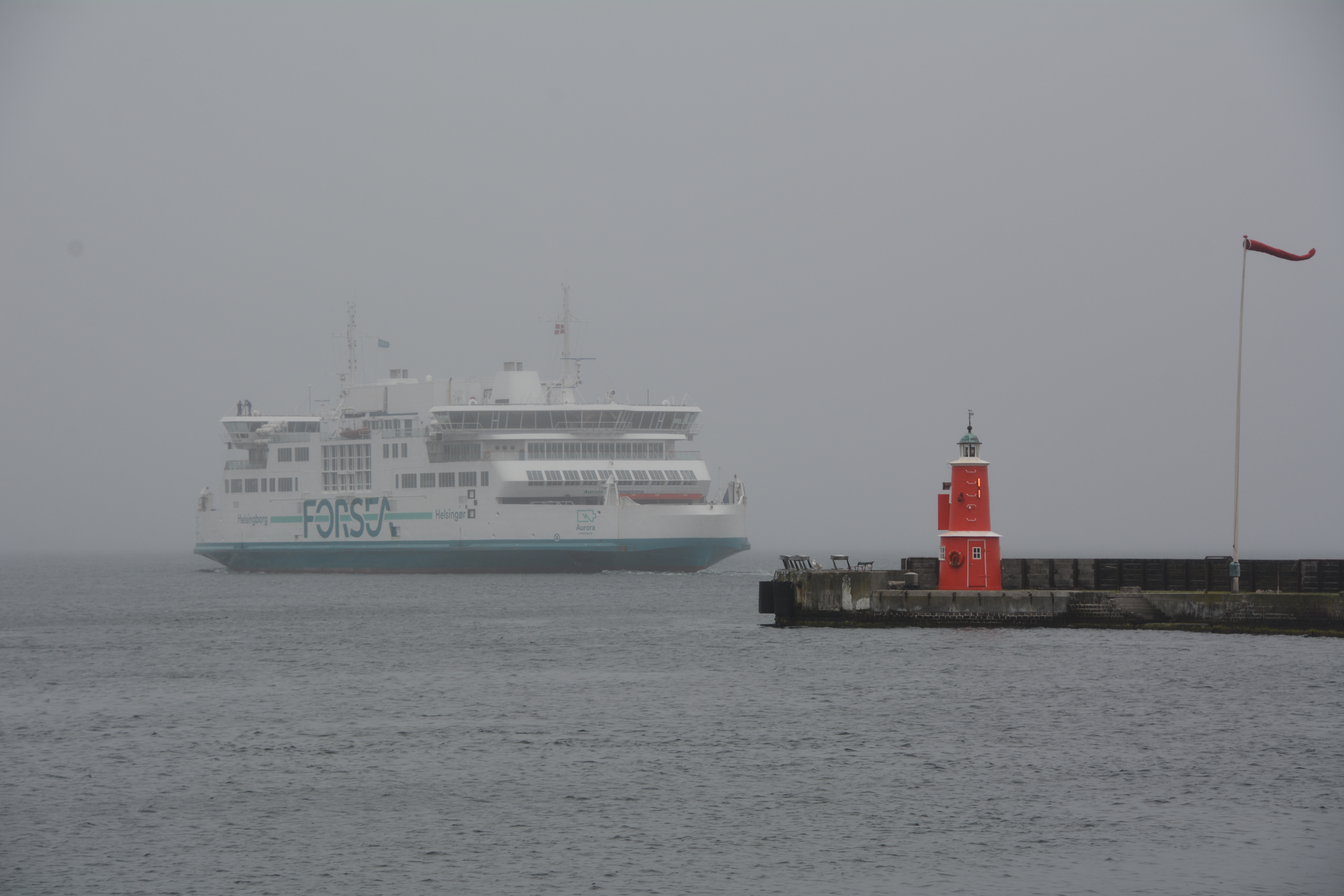 Ferry Aurora approaching Helsingör in mist, May 2019. The ship is converted to electricity propulsion and has battery packages loaded midships.